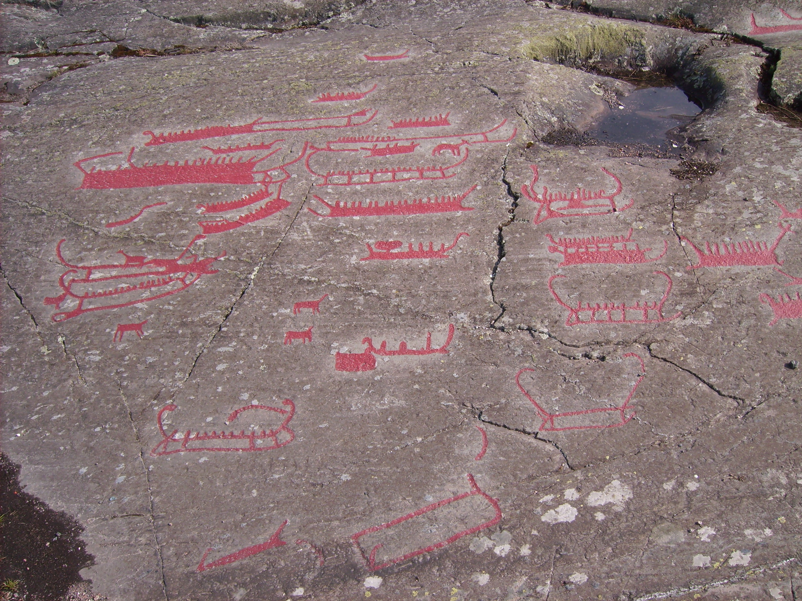 Photo by Harri Blomberg.